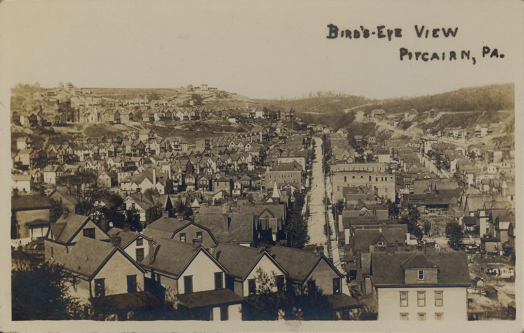 Postcard picture of Pitcairn, Pennsylvania, bird's-eye view